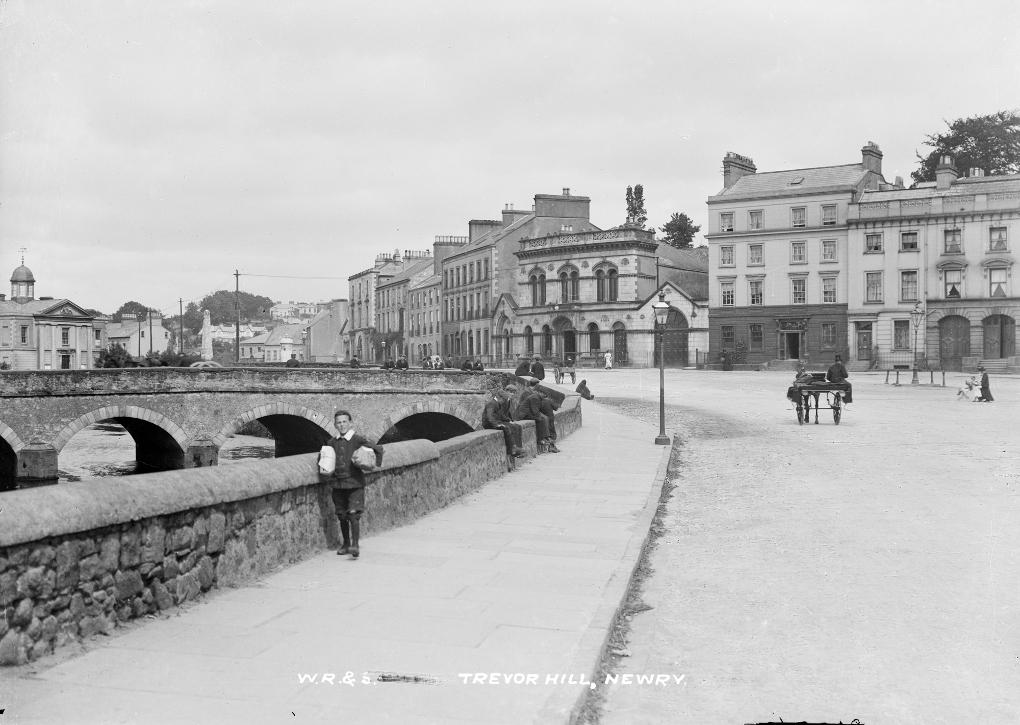 Lots of men chatting around the bridge here, but the boy in the foreground is fully occupied either delivering those parcels, or he has been sent to collect them. Think that's the River Clanrye flowing under the bridge... Here's the current and relatively unchanged Street View, thanks to mogey. The monument noted above by beachcomberaustralia is for Isaac Corry, 1753-1813, M.P. and Irish Chancellor of the Exchequer (who was born and died on the same day, 15th May). See comment below for a riot in Newry provoked by Corry's Window Tax... Date: Circa 1900? NLI Ref.: EAS_1432